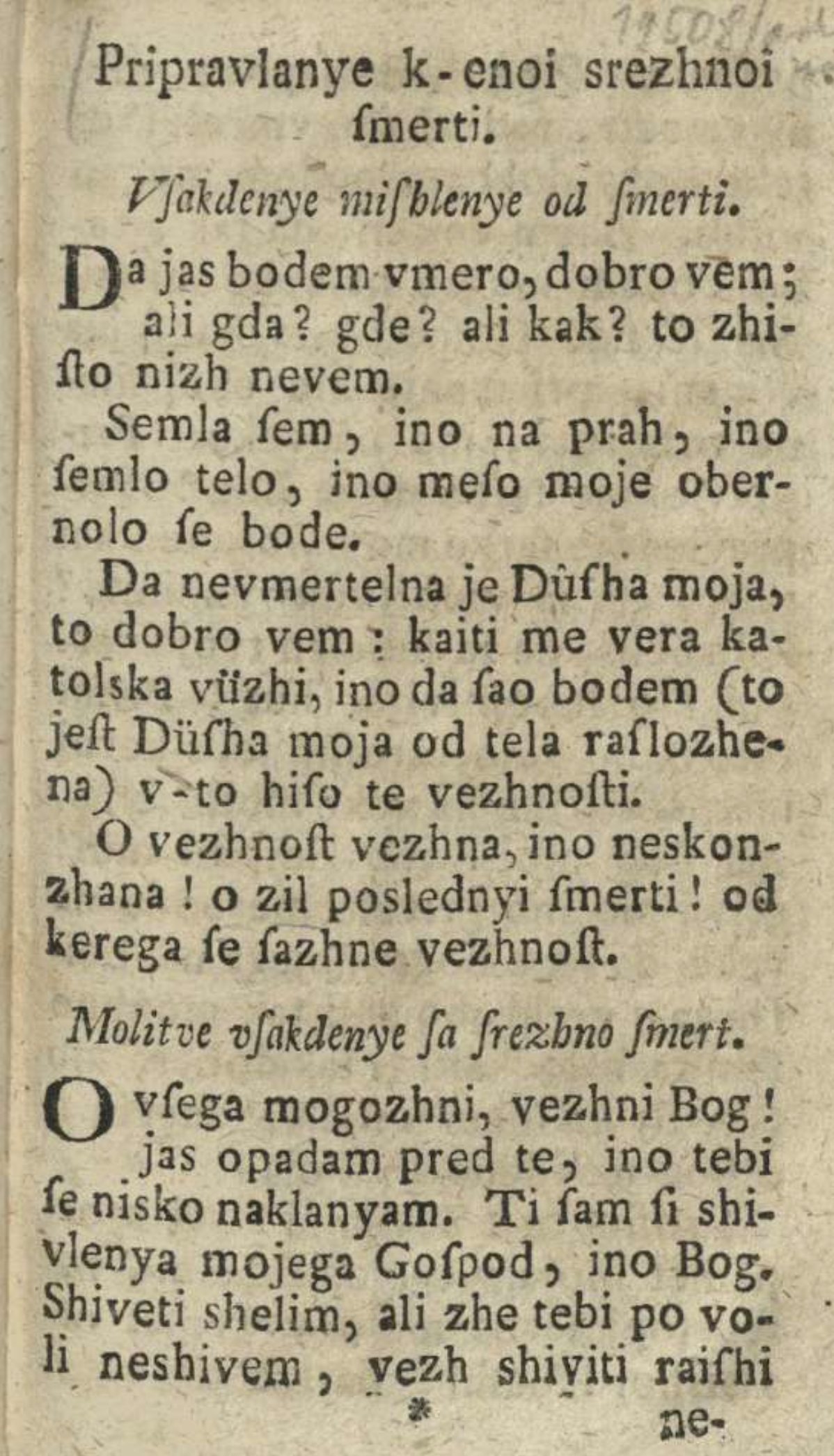 Pripravlanye k-enoi srezhnoi ſmrti (1750), small prayer-book in Styrian Slovene language in Bohorič-alphabet with Kajkavian influence. Author is unknown